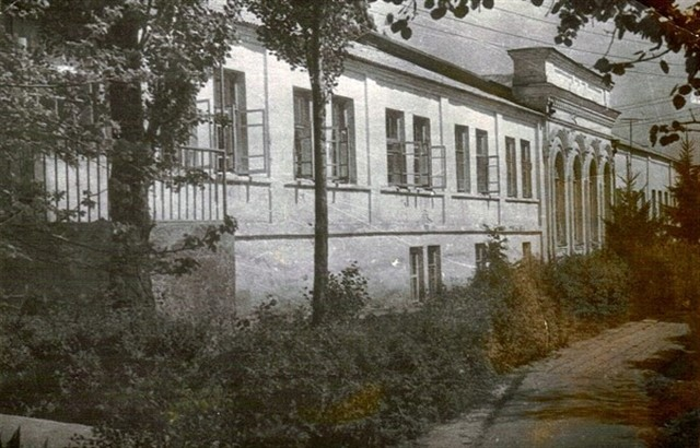 Адреса Полтавського дитячого будинку для глухонімих в післявоєнний час: провулок Академіка Євгена Федорова (раніше провулок П.Войкова)